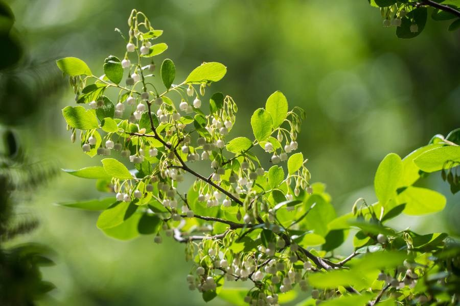 Vaccinium arboreum, Sparkleberry branch